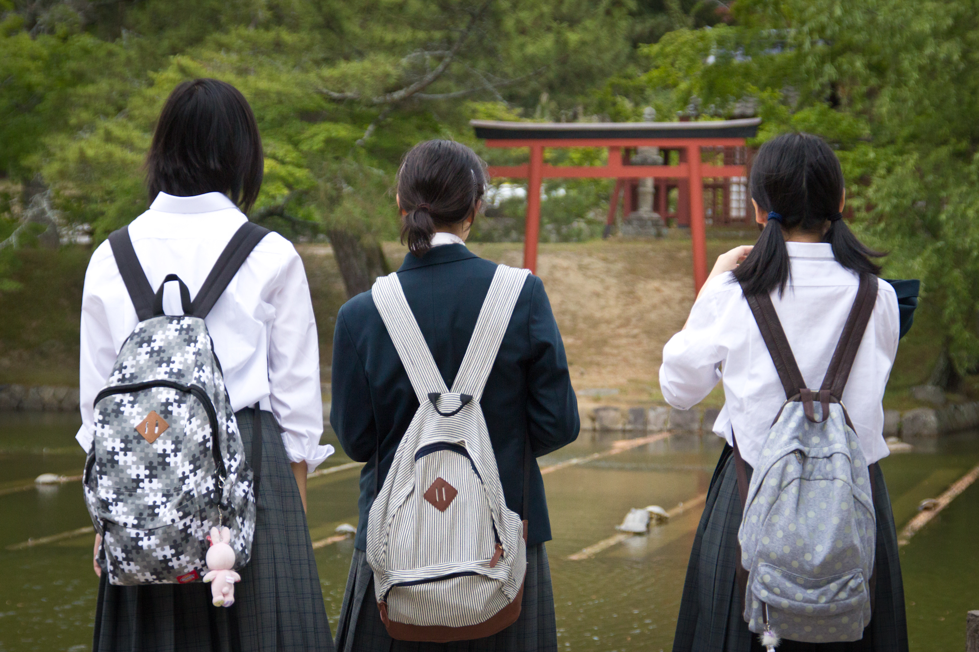 A visit to Nara, the ancient capital of Japan [1] Loose Backpack Carrying